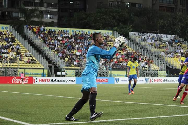 Kunal S